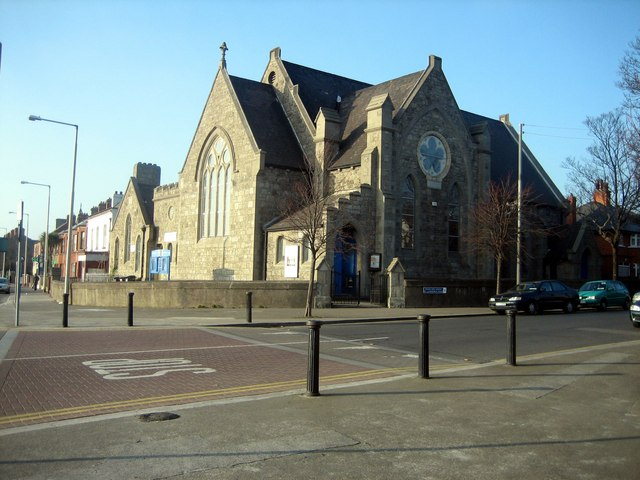 Methodist Church, Clontarf At the junction of Saint Lawrence Road and Clontarf Road.